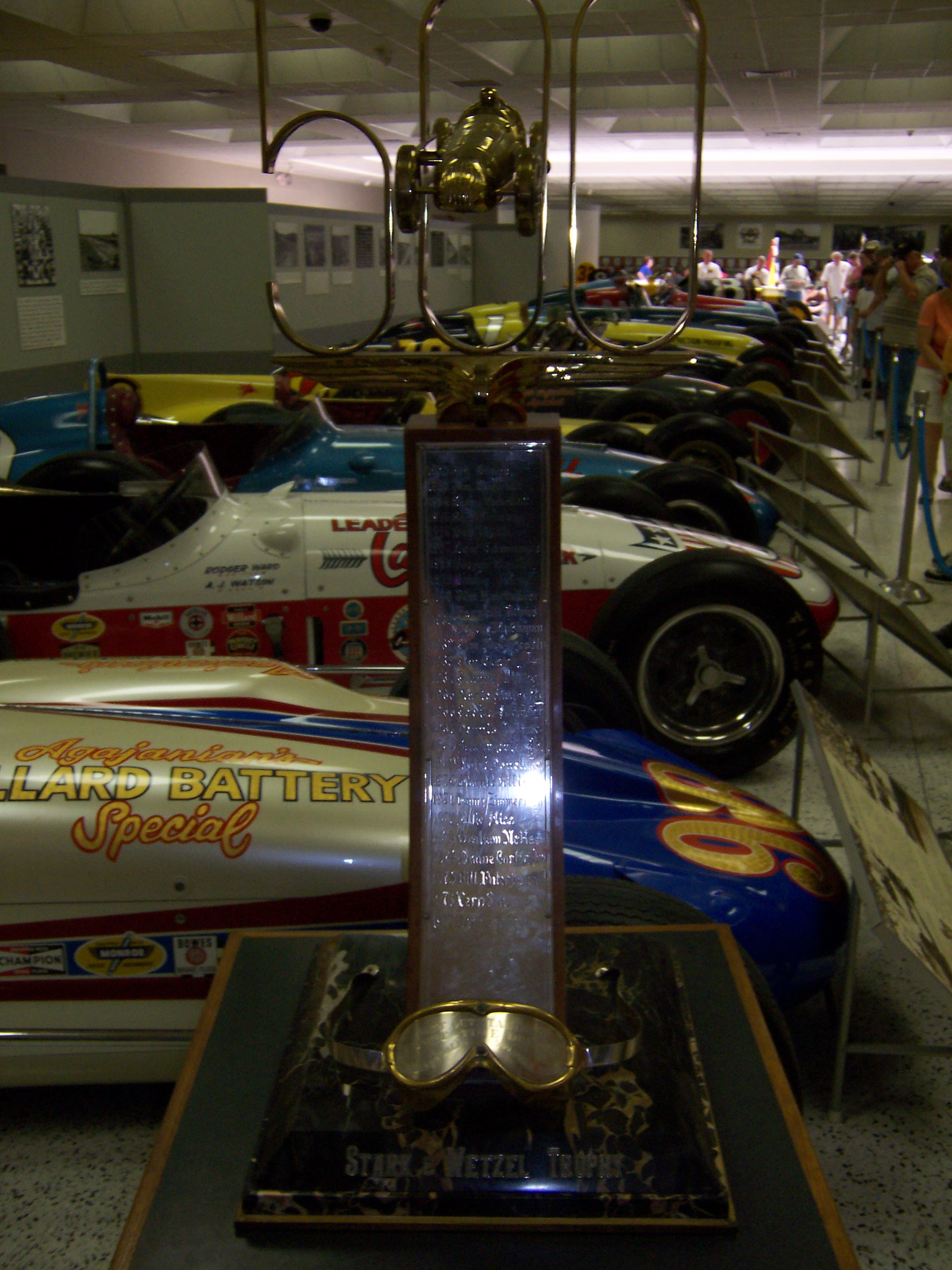 Stark and Wetzel Rookie of the Year Award from the Indianapolis 500